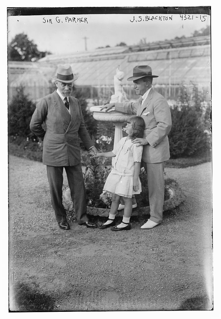 Bain News Service,, publisher. Sir G. Parker, J.S. Blackton [between ca. 1915 and ca. 1920] 1 negative : glass ; 5 x 7 in. or smaller. Notes: Title from data provided by the Bain News Service on the negative. Photograph shows film director J. Stuart Blackton (1875-1941). (Source: Flickr Commons project, 2015) Forms part of: George Grantham Bain Collection (Library of Congress). Format: Glass negatives. Repository: Library of Congress, Prints and Photographs Division, Washington, D.C. 20540 USA, General information about the Bain Collection is available at Higher resolution image is available (Persistent URL): Call Number: LC-B2- 4321-15